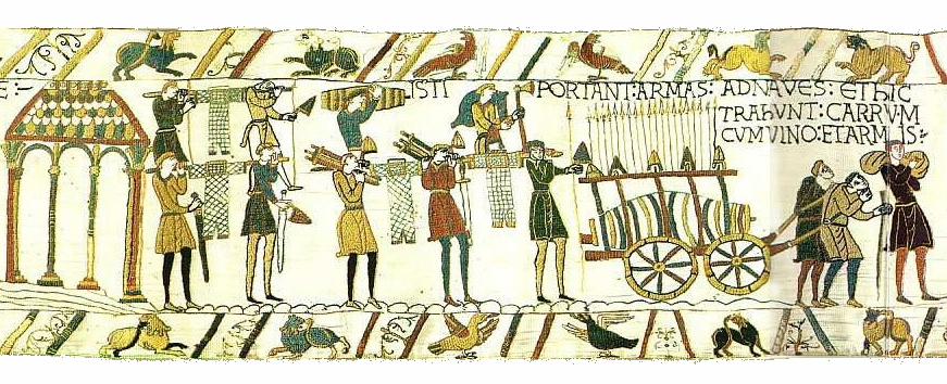 Bayeux Tapestry. Scene 37